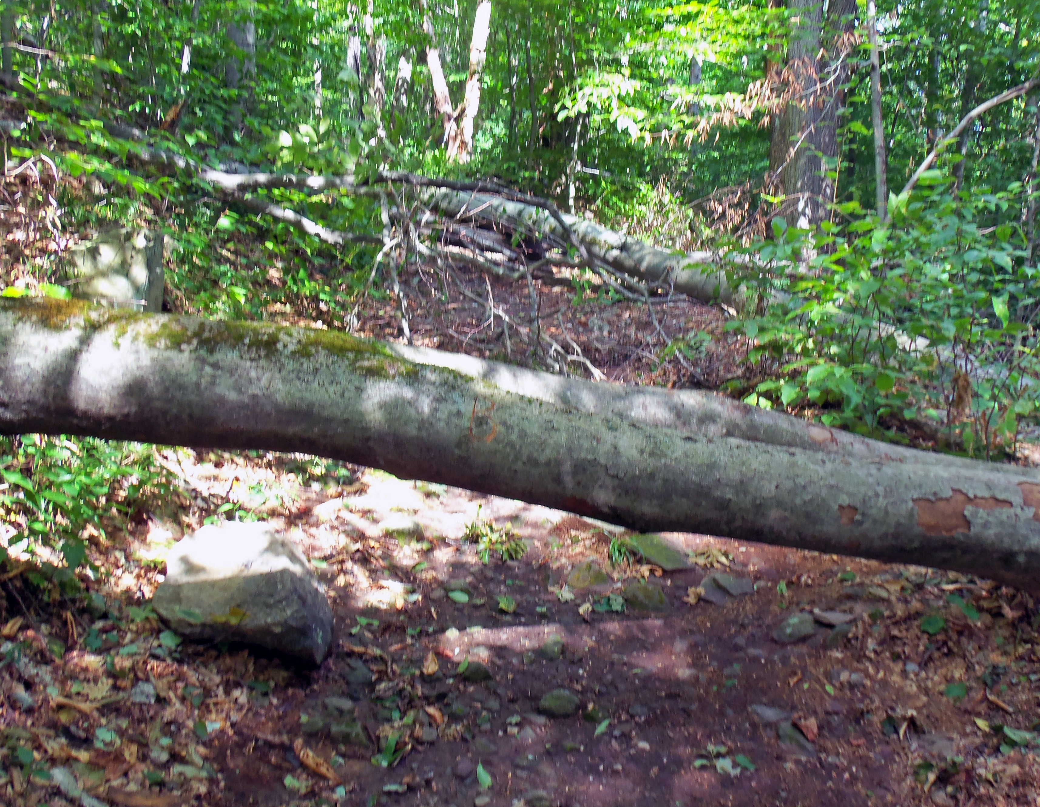 Downed trees on the Peekamoose–Table Trail, part of the Long Path in the Catskill Mountains of New York, following Hurricane Irene